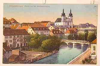 Scan of an old postcard depicting Donaueschingen.